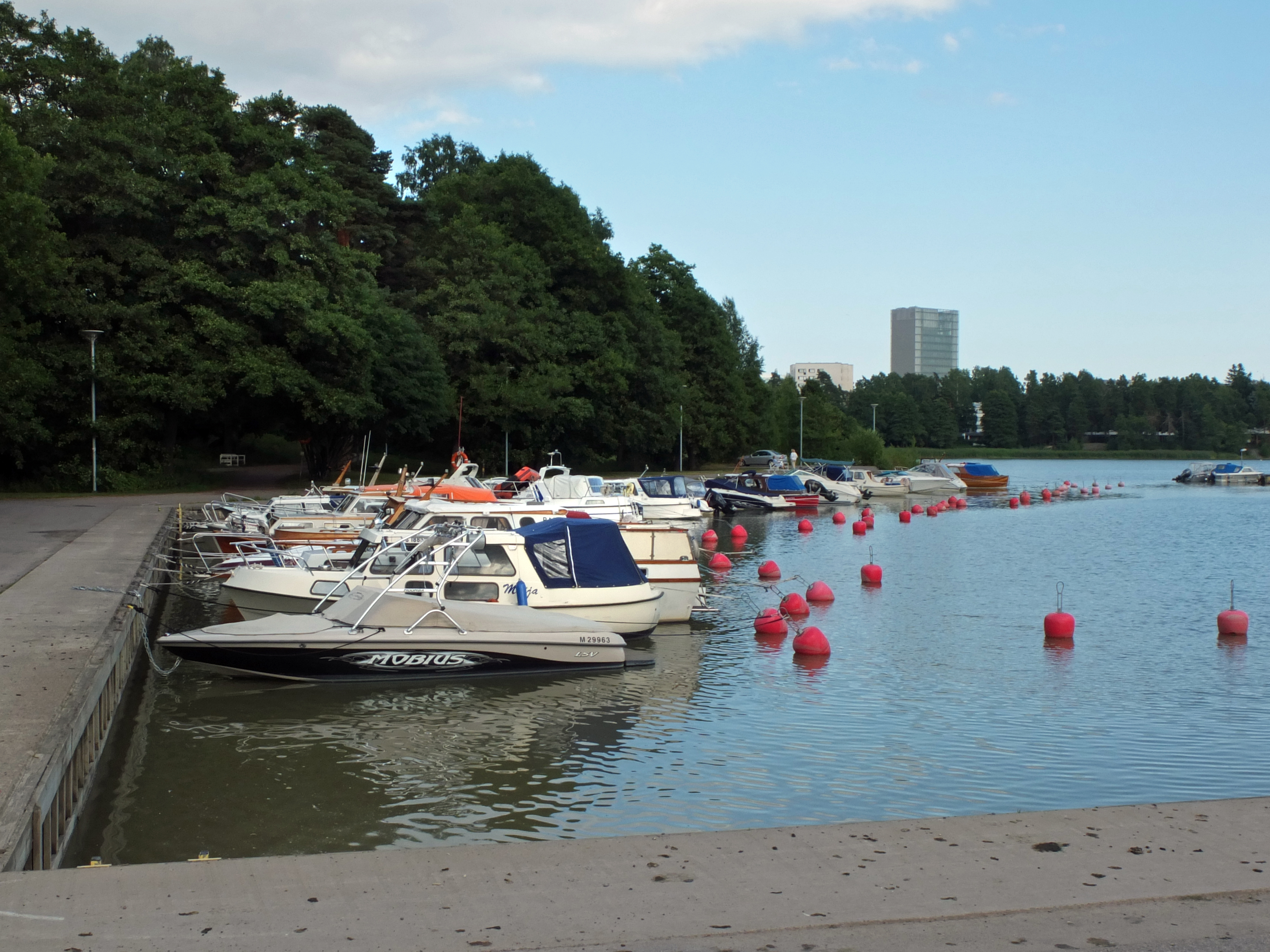 Boats at marina on Otsolahti bay, Espoo, Finland, looking towards east from Tapiola centre.